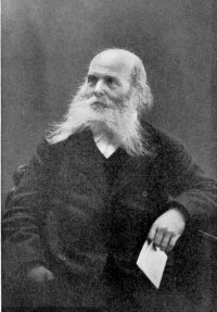 Christoph Friedrich Landbeck (1840-1921), publisher